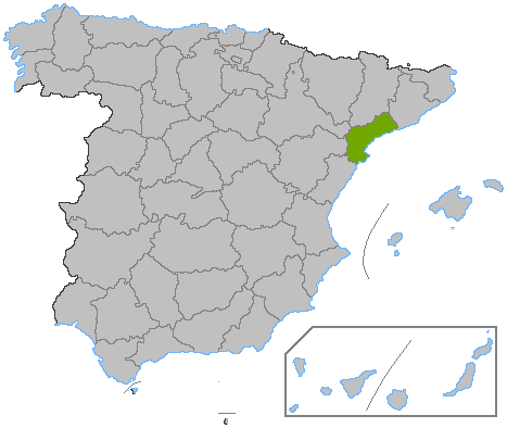 Location of the province of Tarragona, in Spain. Basado en: ProvPont.jpg Source: Designed by Satesclop. Original picture, designed by Sobreira.